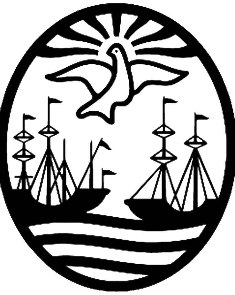 Official coat of arms of the Autonomous City of Buenos Aires, approved by the City Legislature on November 29, 2012.